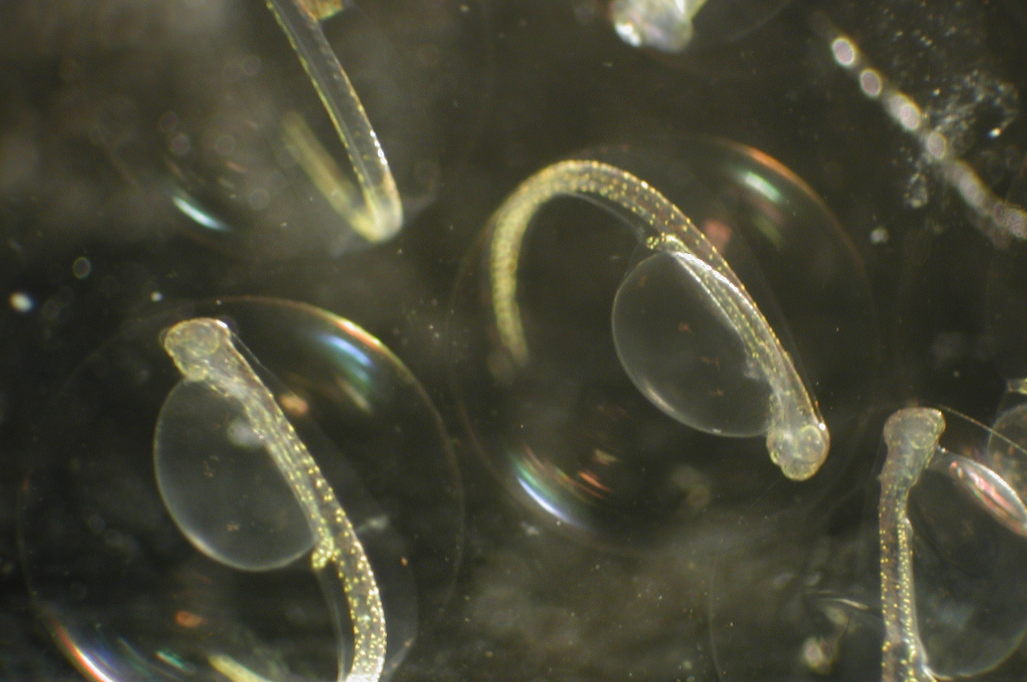 Zooplankton. Fish eggs.